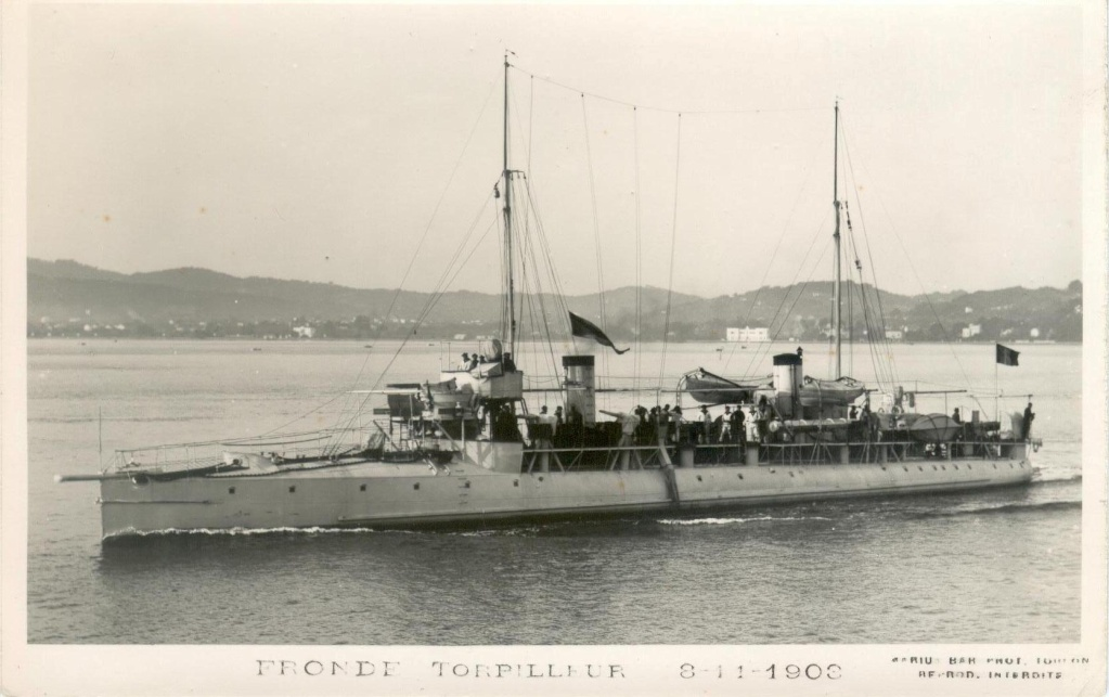 Arquebuse class torpedo boat